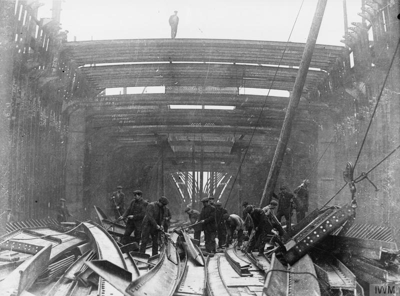 The Shipbuilding Industry in Britain, 1914-1918 Workers framing and beaming a 'F' type standard ship at the Northumberland shipbuilding company, Howdon, Newcastle.